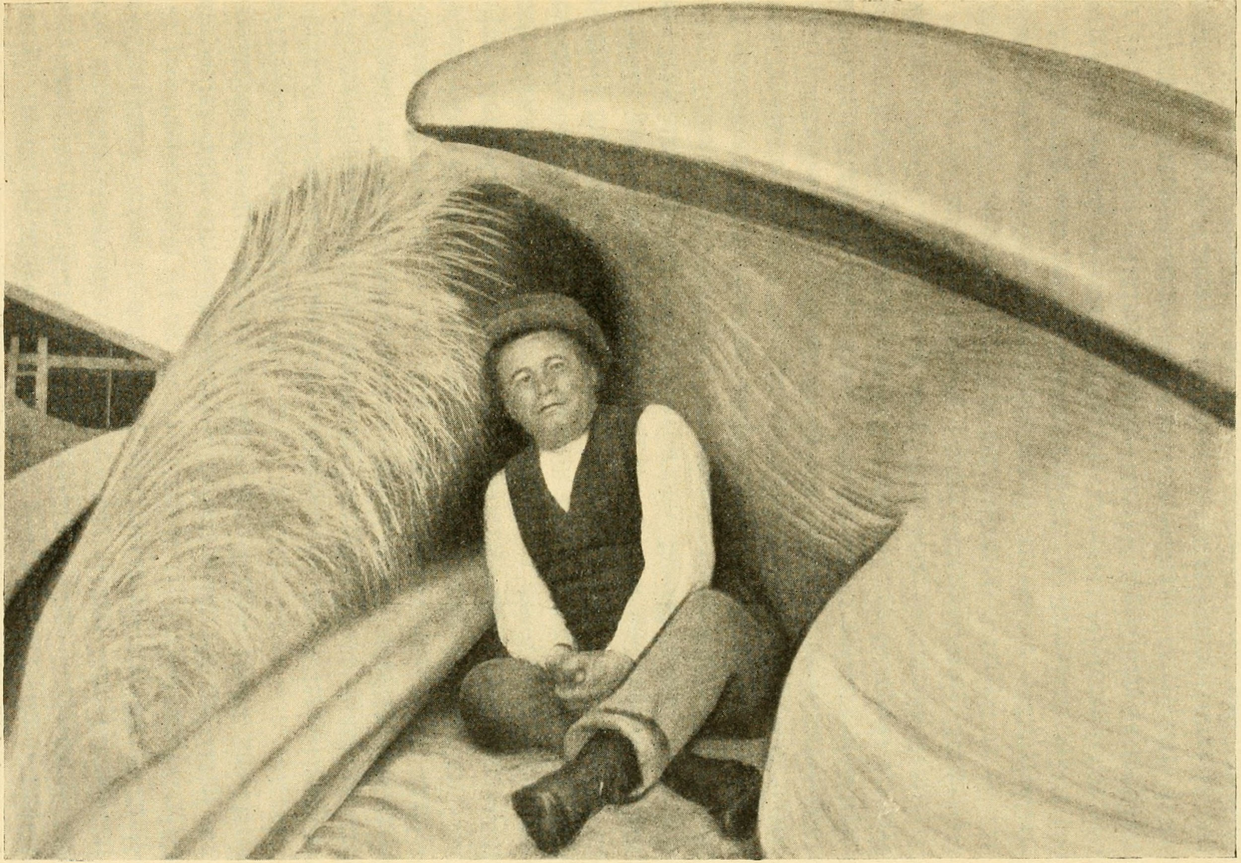 Sigurd Risting in the mouth of a fin whale in Shetland 1912. Photo: dentist Egil Endresen